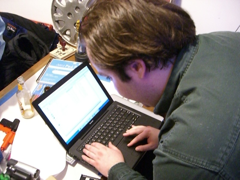 Andy